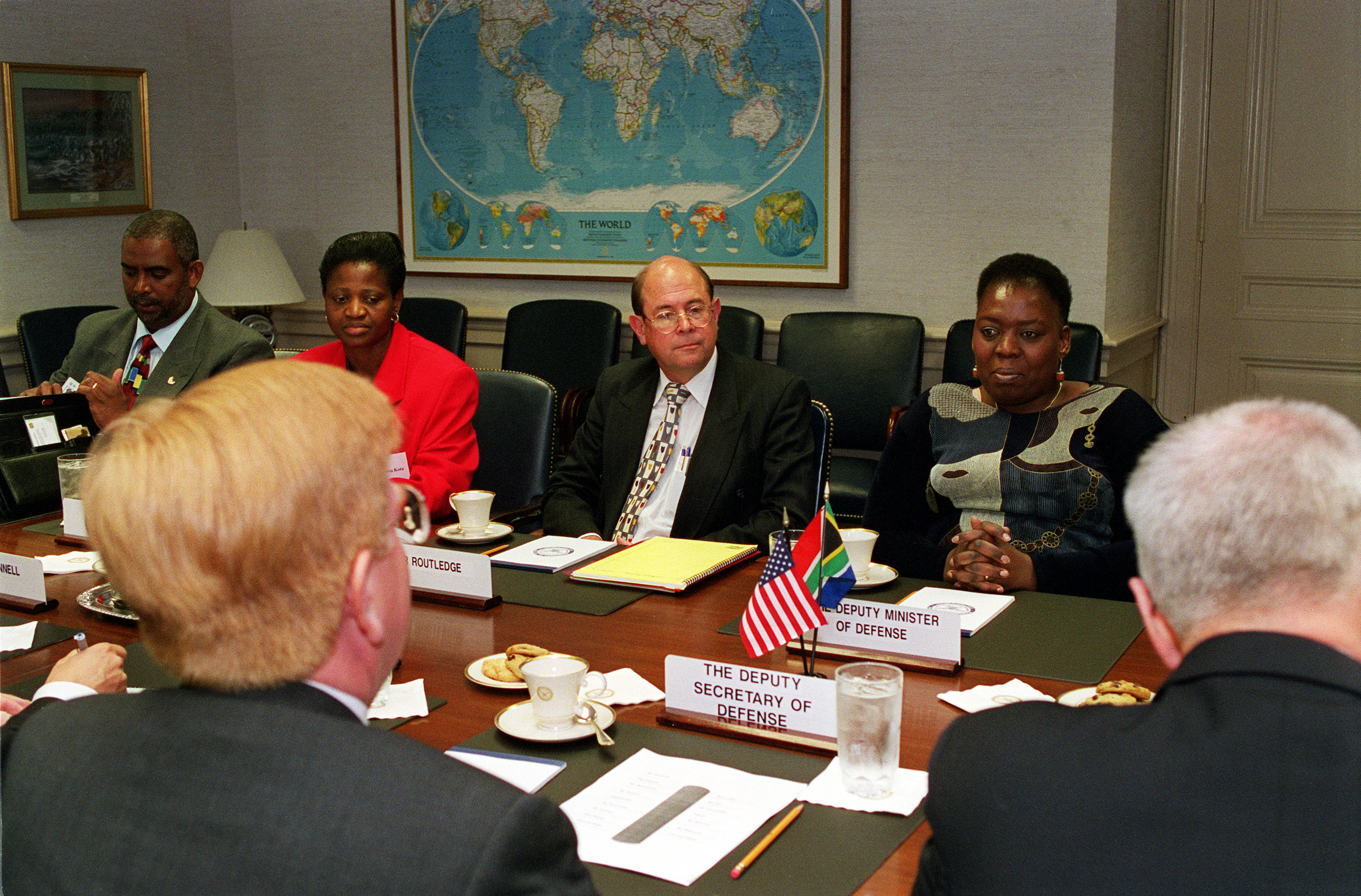 Deputy Secretary of Defense Rudy de Leon (left foreground) meets with South African Deputy Defense Minister Nozizwe Madlala-Routledge (right) in the Pentagon on Oct. 16, 2000. De Leon and Madlala-Routledge are discussing a broad range of security issues of interest to both nations. South African Director of Operations and Policy B. B. Mtimkulu (left), Member of Parliament Zoliswa Kot (2nd from left and Jeremy Routledge participated in the meeting with de Leon and Madlala-Routledge.